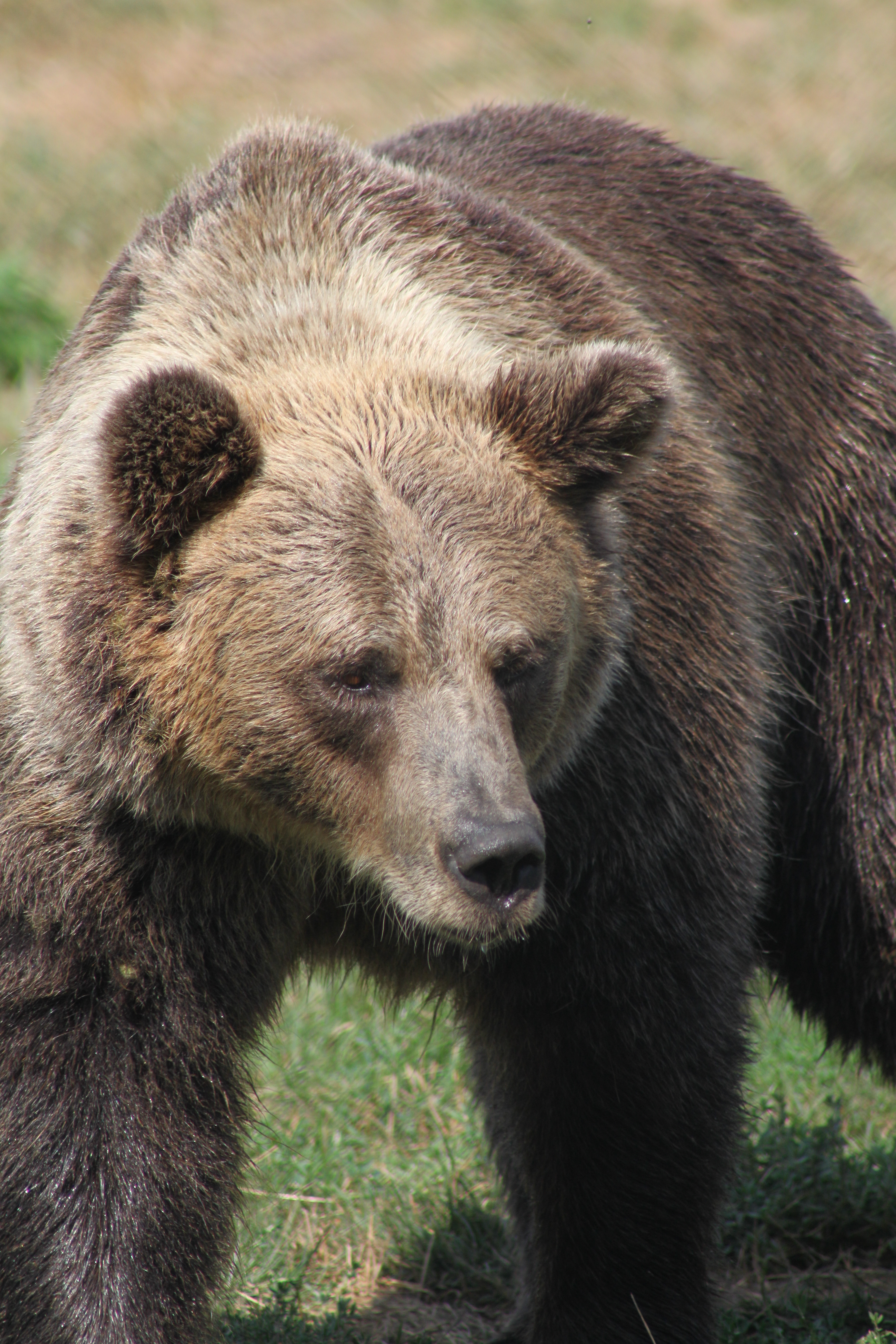 Grizzly bear at the Veresegyház Bear Home (asylum for retired film and cicrcus bears, etc.)